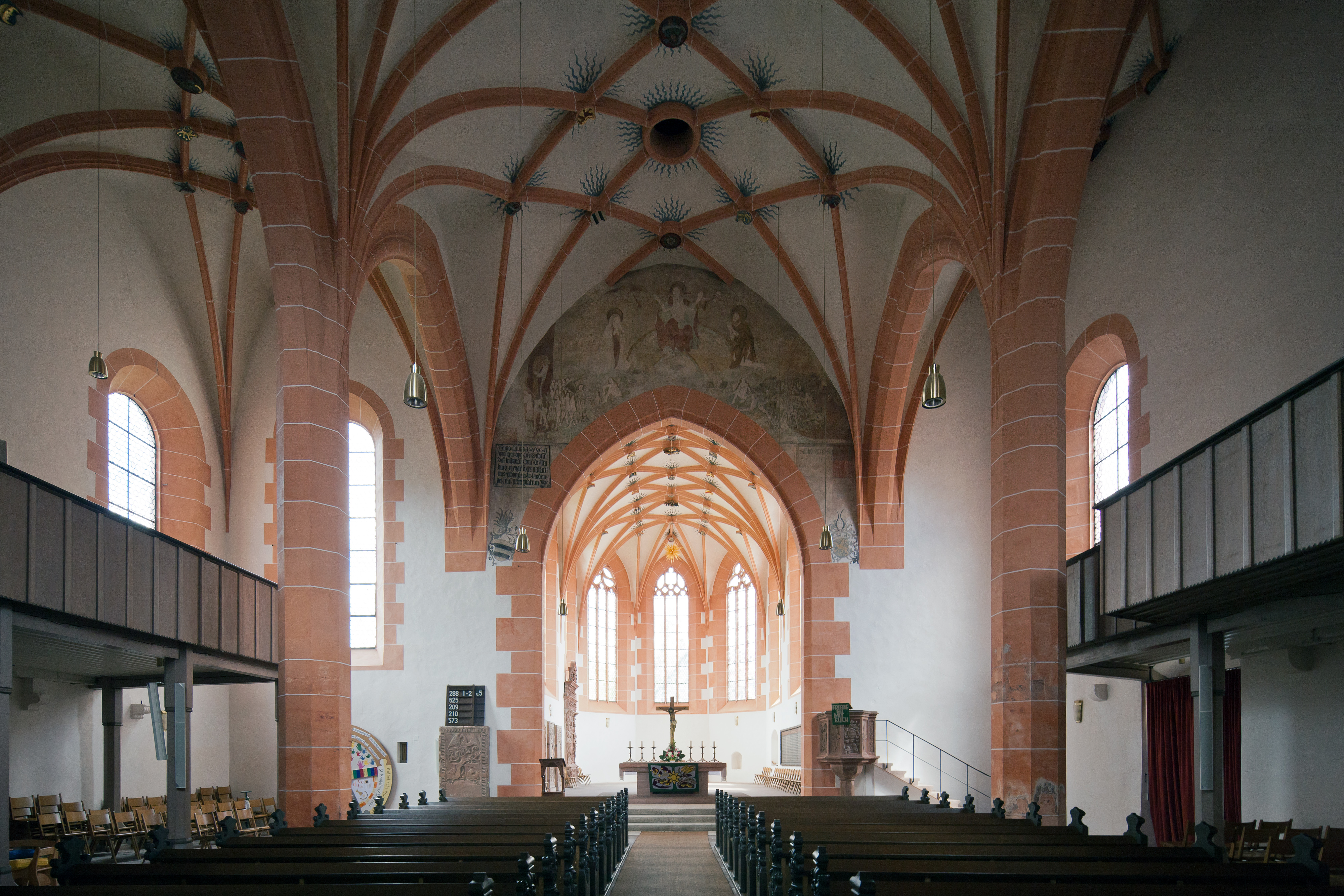 Büdingen: Marienkirche (St. Mary's Church), interior as seen from the west